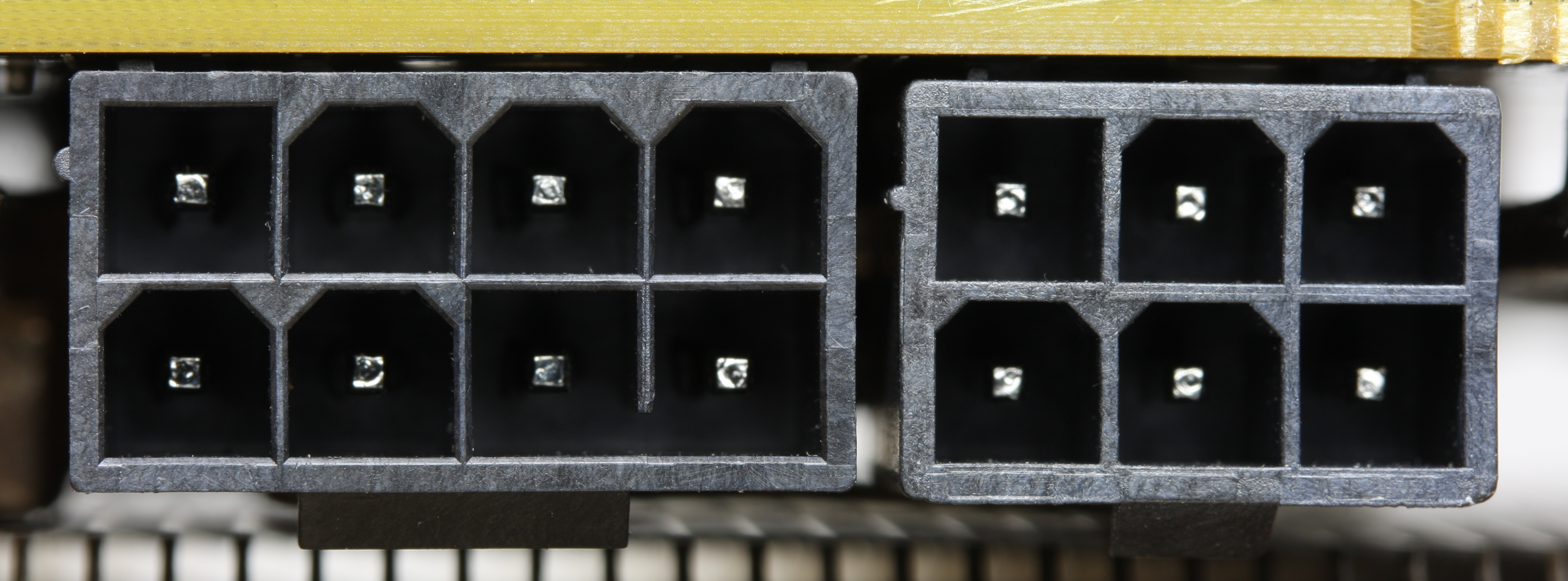 A pair of female PCI Express Power Supply Connectors, with 6 and 8 pins